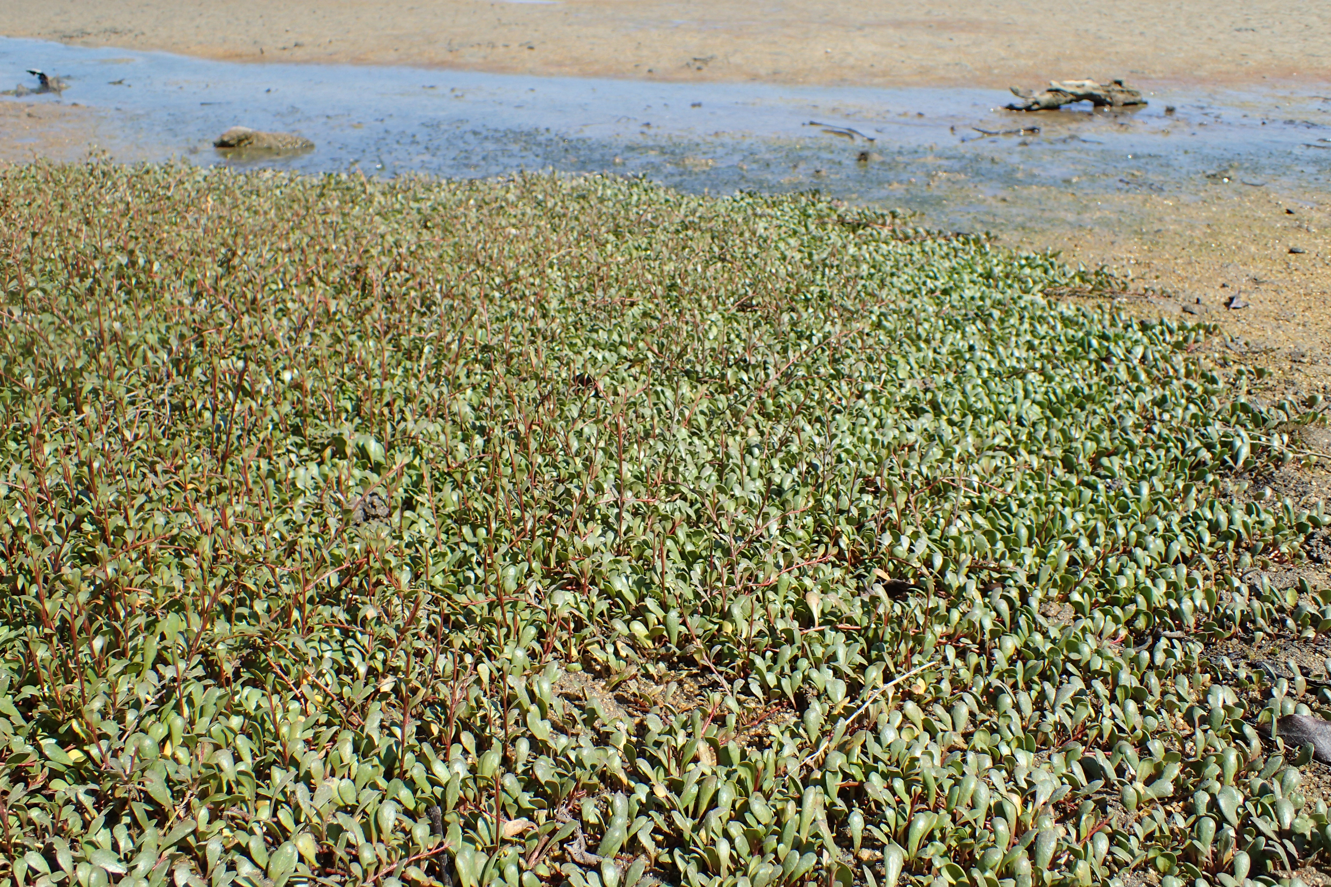 Samolus repens on Wainui Bay, Tasman (New Zealand)